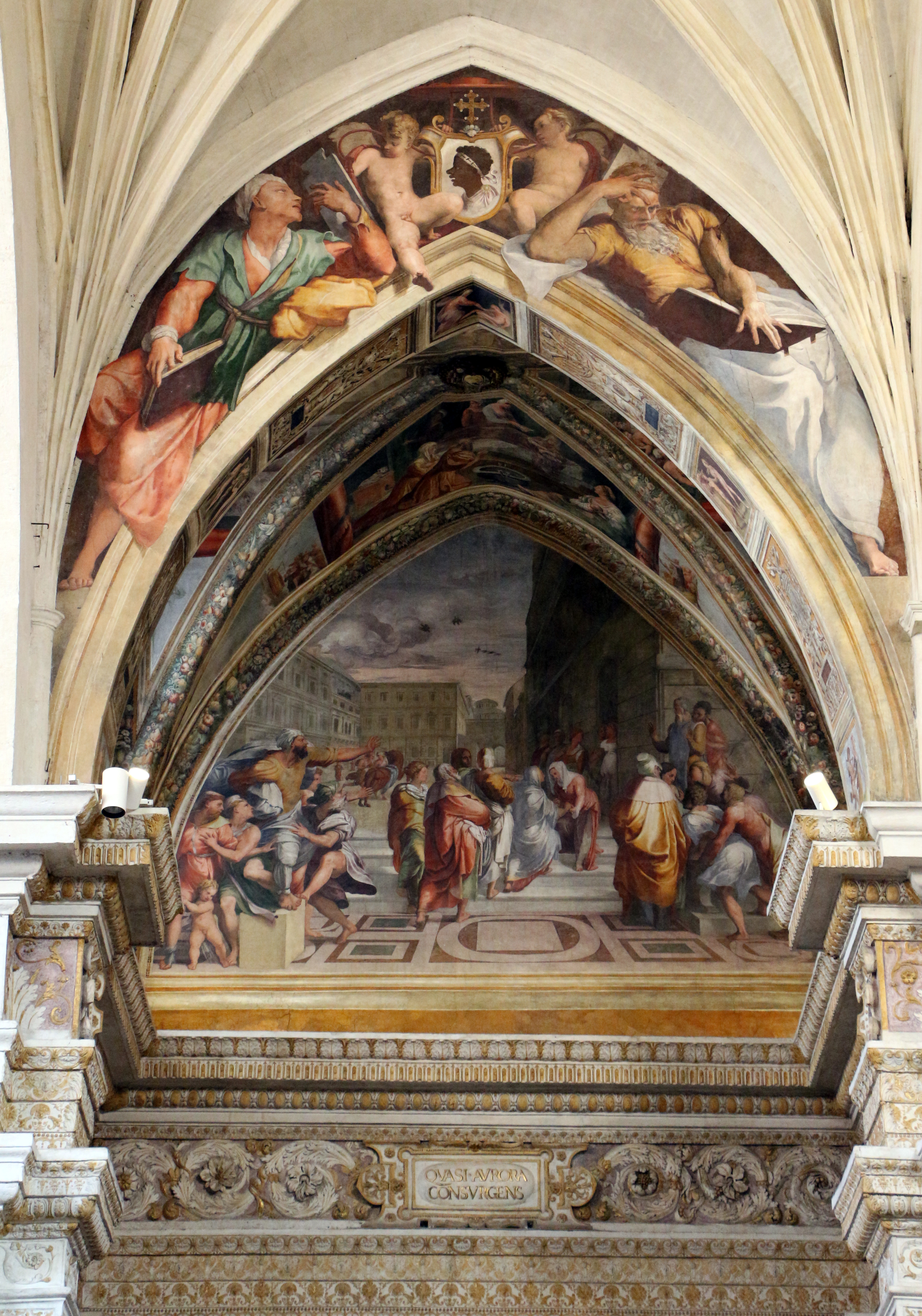 Trinità dei Monti (Rome) - Pucci Chapel - Frescos by Perin del Vaga